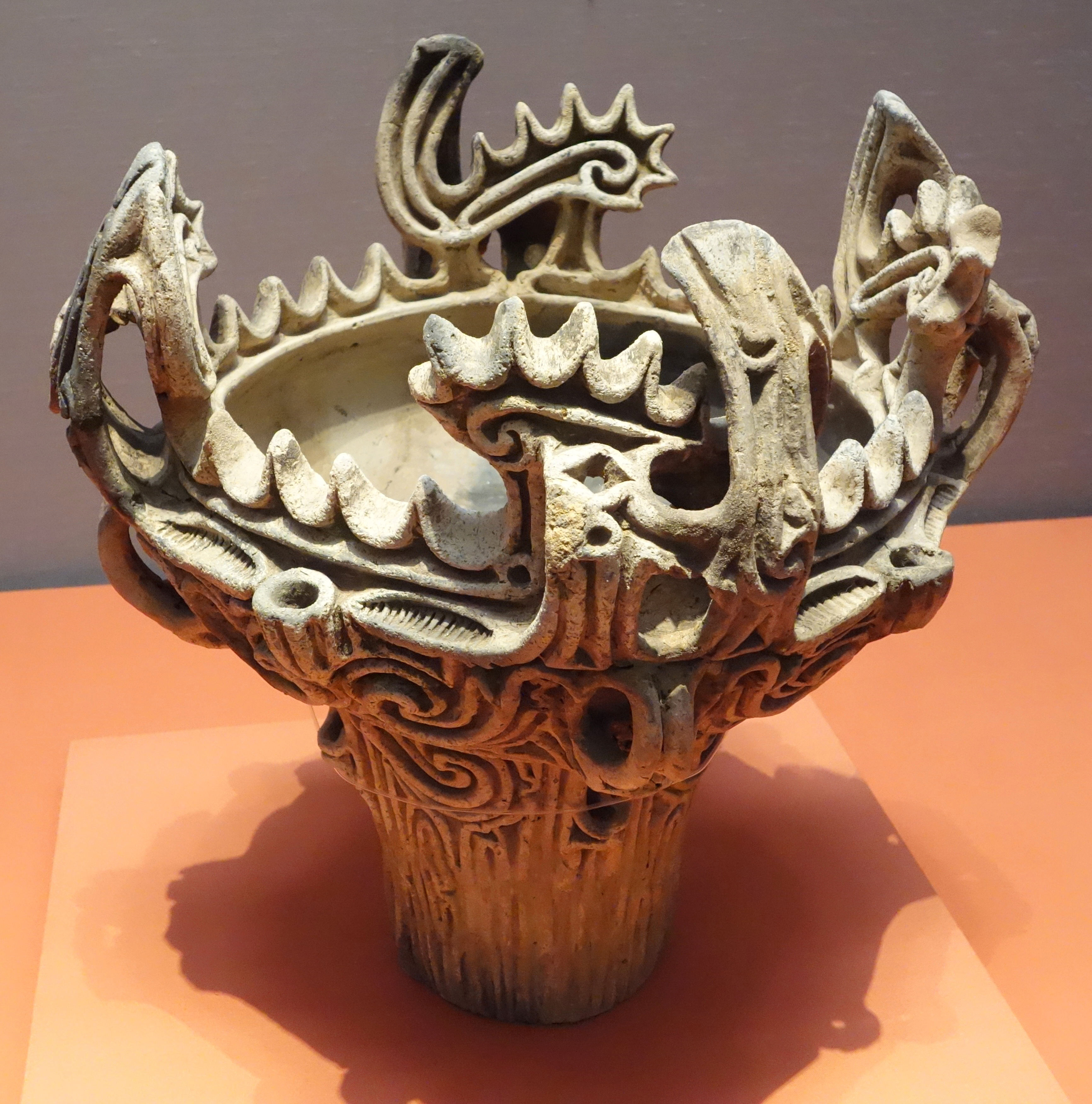 Exhibit in the Tokyo National Museum, Tokyo, Japan. This artwork is old enough so that it is in the public domain. This object serve for the cover illustration of Acient Jomon of Japan, Junko Habu, Cambridge, 2004. : "Fire Flame" style pottery excavated at the Middle Jomon Sasayama site, Niigata Prefecture. Tokamachi City Museum. H. 45 cm. ?